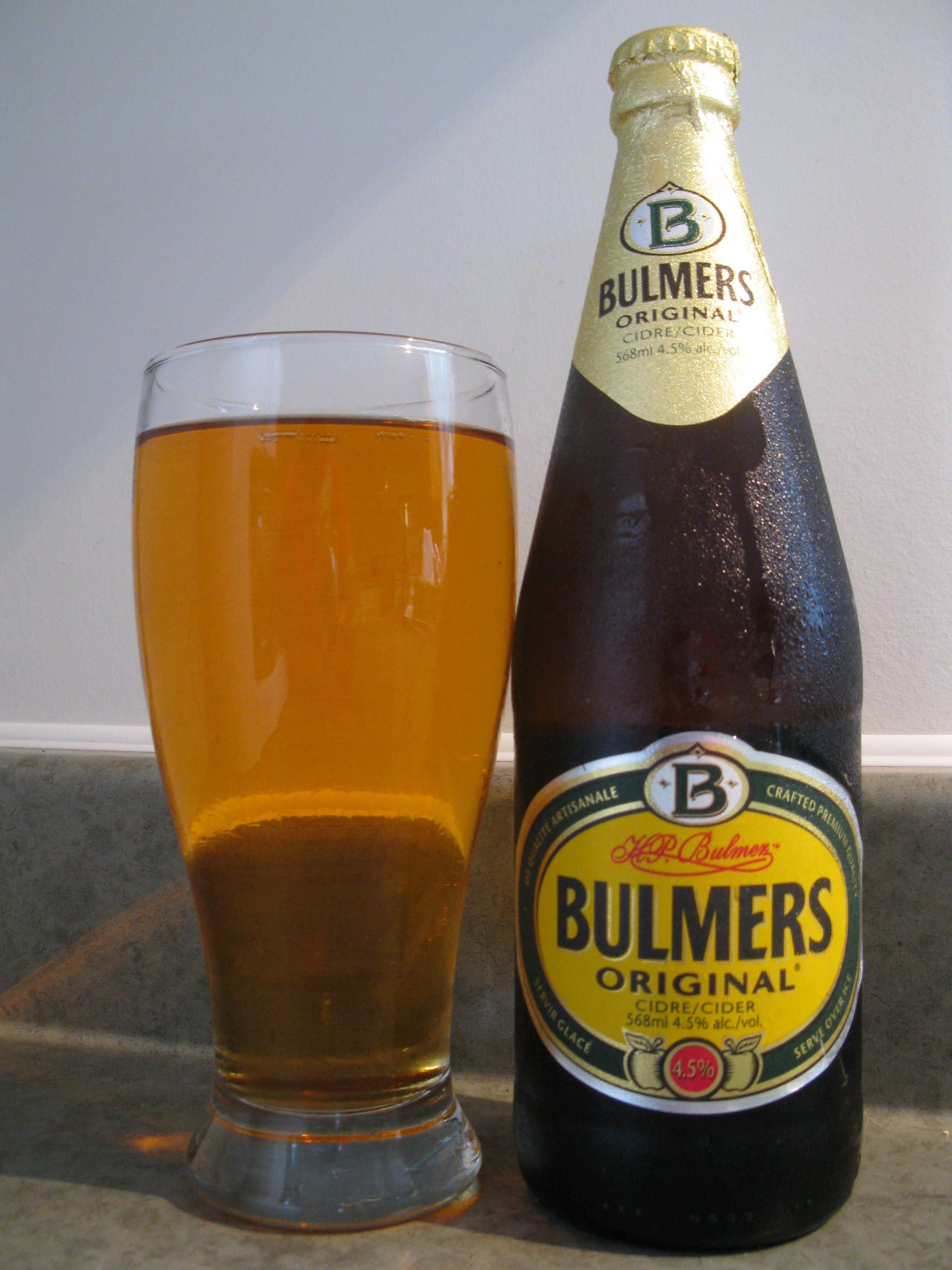 Bulmers Original Cider, Canadian Market (bilingual label). 568ml/pint bottle with glass of Bulmers Original Cider.